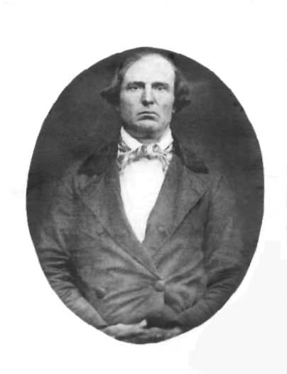 John Tucker Scott, Oregon pioneer; father of journalists Harvey W. Scott, Abigail Scott Duniway, and Catherine A. Coburn.